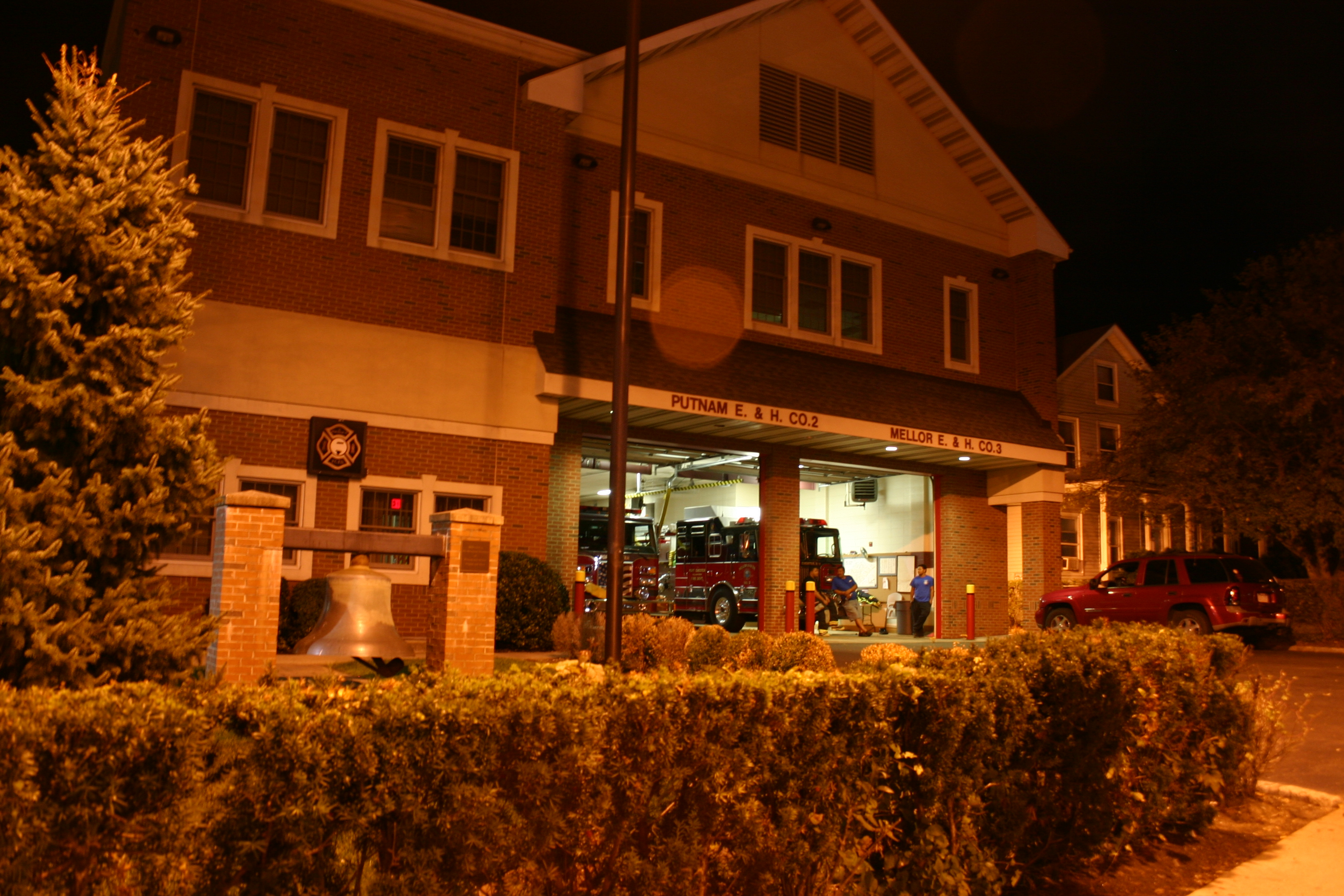 Putnam and Mellor Engine and Hose Company Firehouse, 46 S. Main St. Port Chester